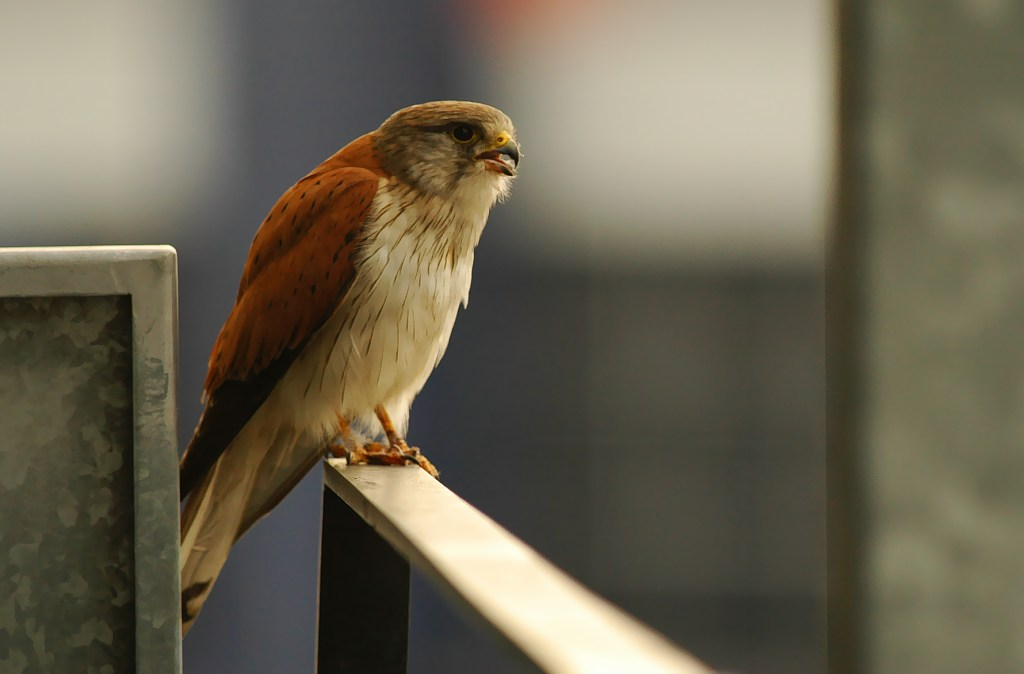 A Nankeen Kestrel (Falco cenchroides) in Melbourne, Australia.